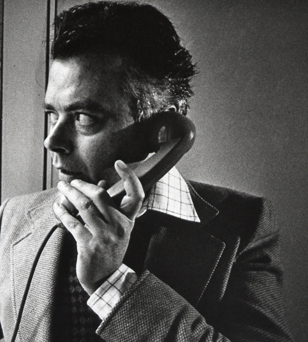 Paolo Barozzi in Venice